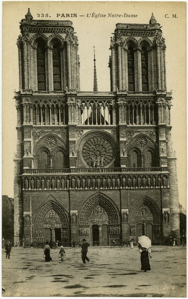 Accession Number: 1977:0067:0019 Maker: Unidentified Photographer Title: 235. PARIS - L'?lise Notre-Dame Date: ca. 1916 Medium: collotype print Dimensions: Overall: 13.8 x 8.6 cm George Eastman House Collection